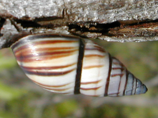 Drymaeus multilineatus from Everglades National Park.